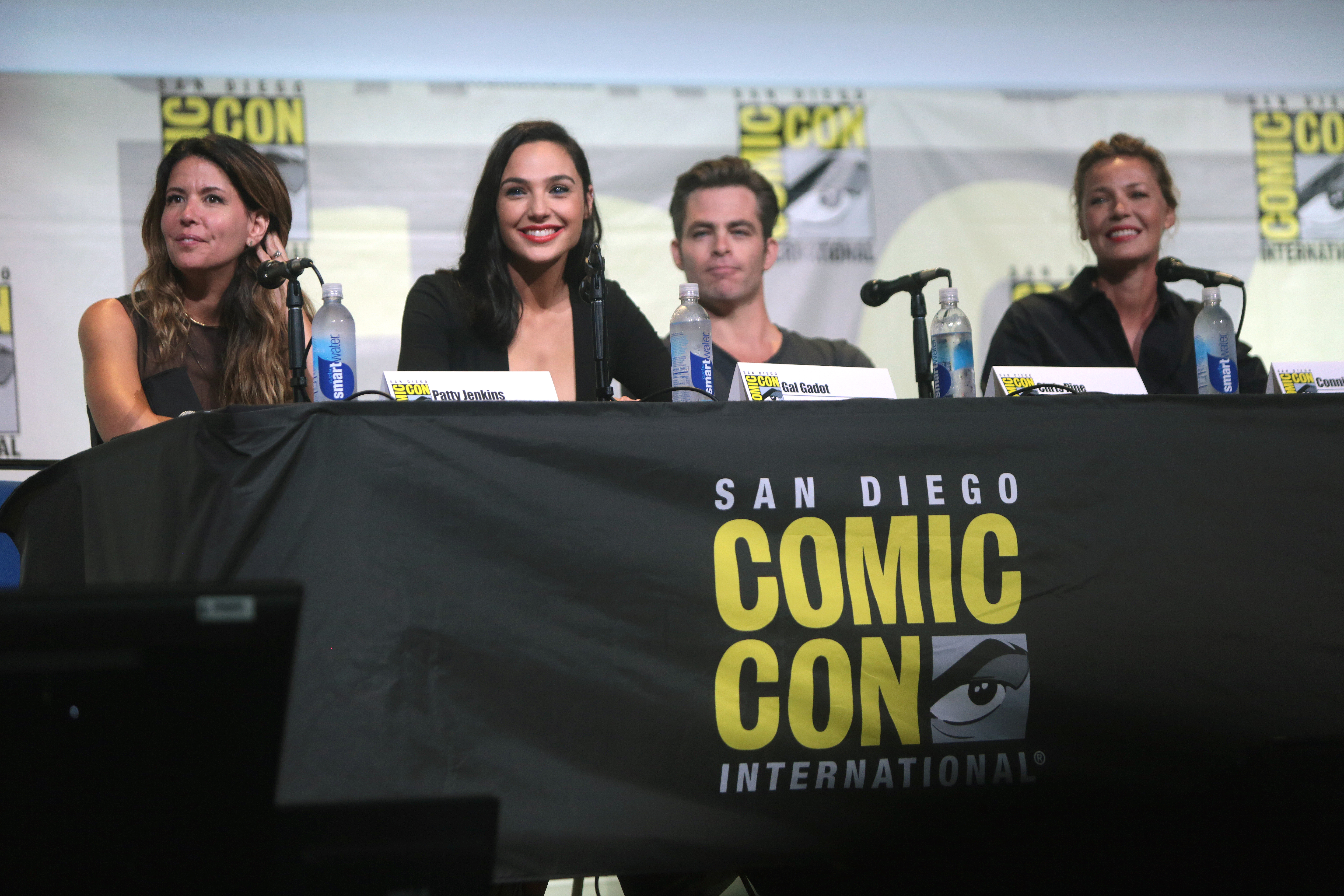 Cast of Wonder Woman (L:R: Patty Jenkins, Gal Gadot, Chris Pine, Connie Nielsen)